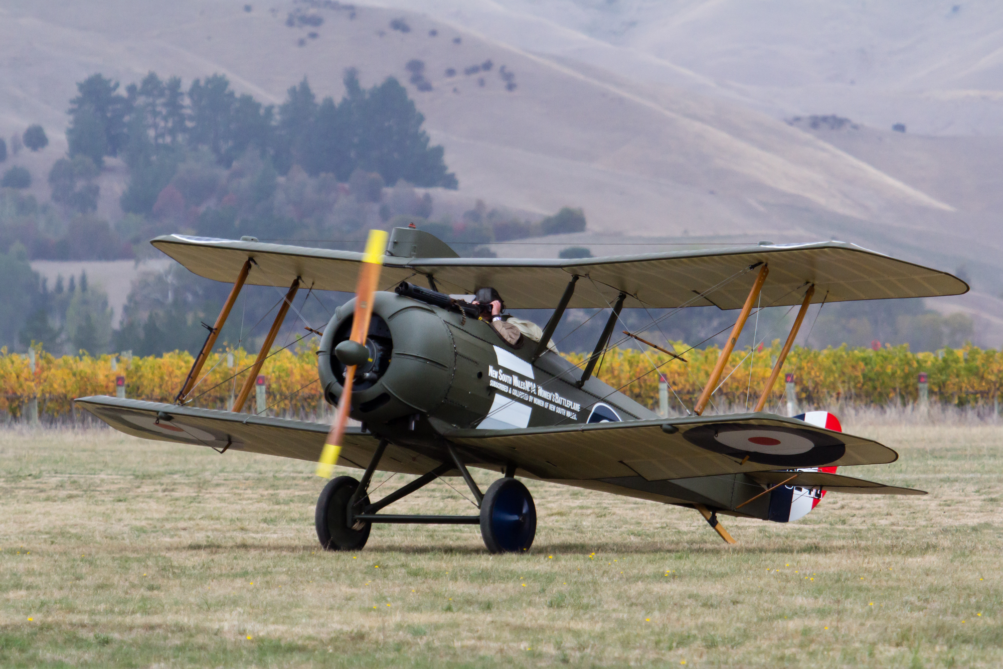 Classic Fighters 2015 - Airco DH.5 ZK-JOQ